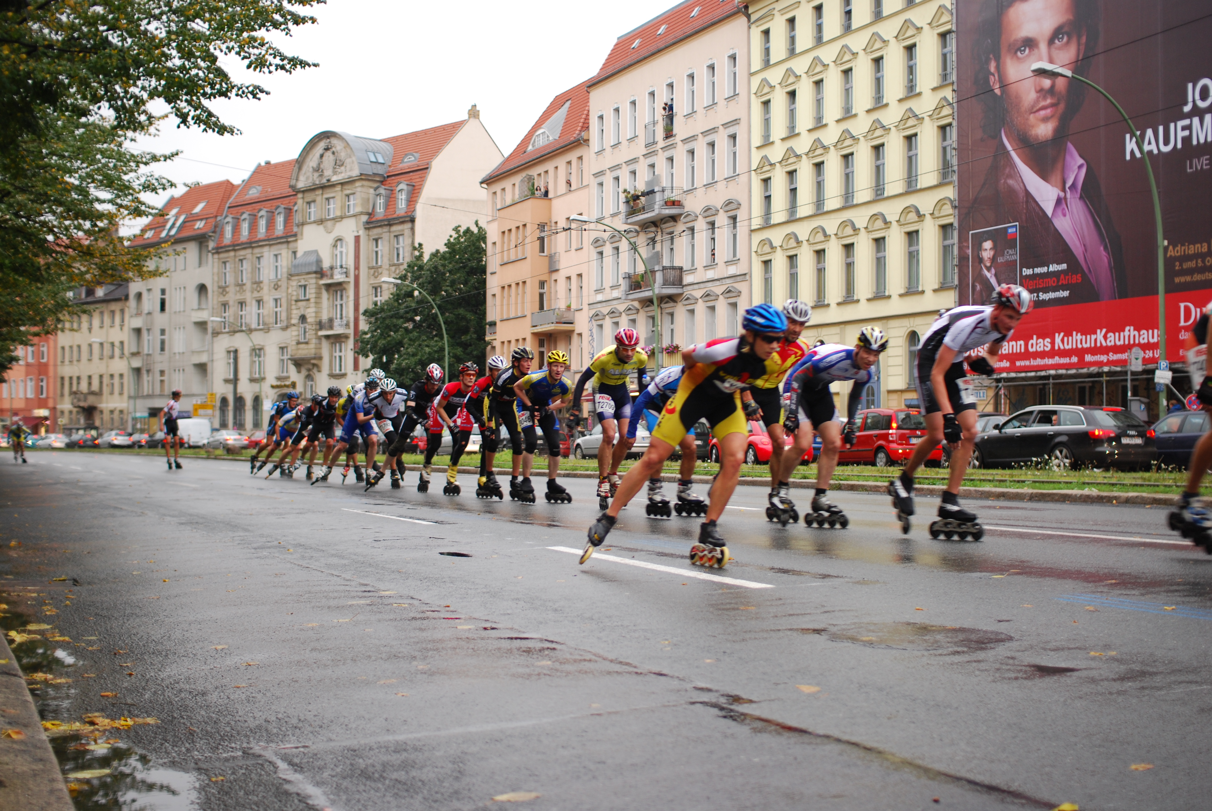 Berlin Marathon 2010, skater marathon